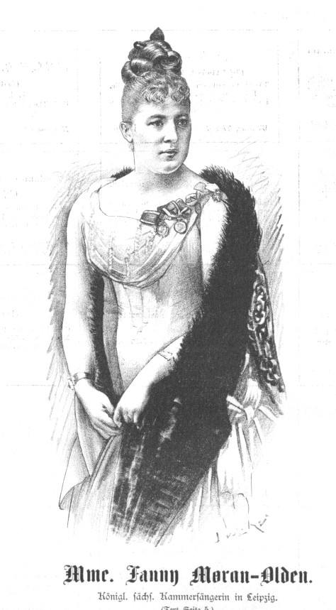 Portrait of Fanny Moran-Olden (1855-1905), German opera singer